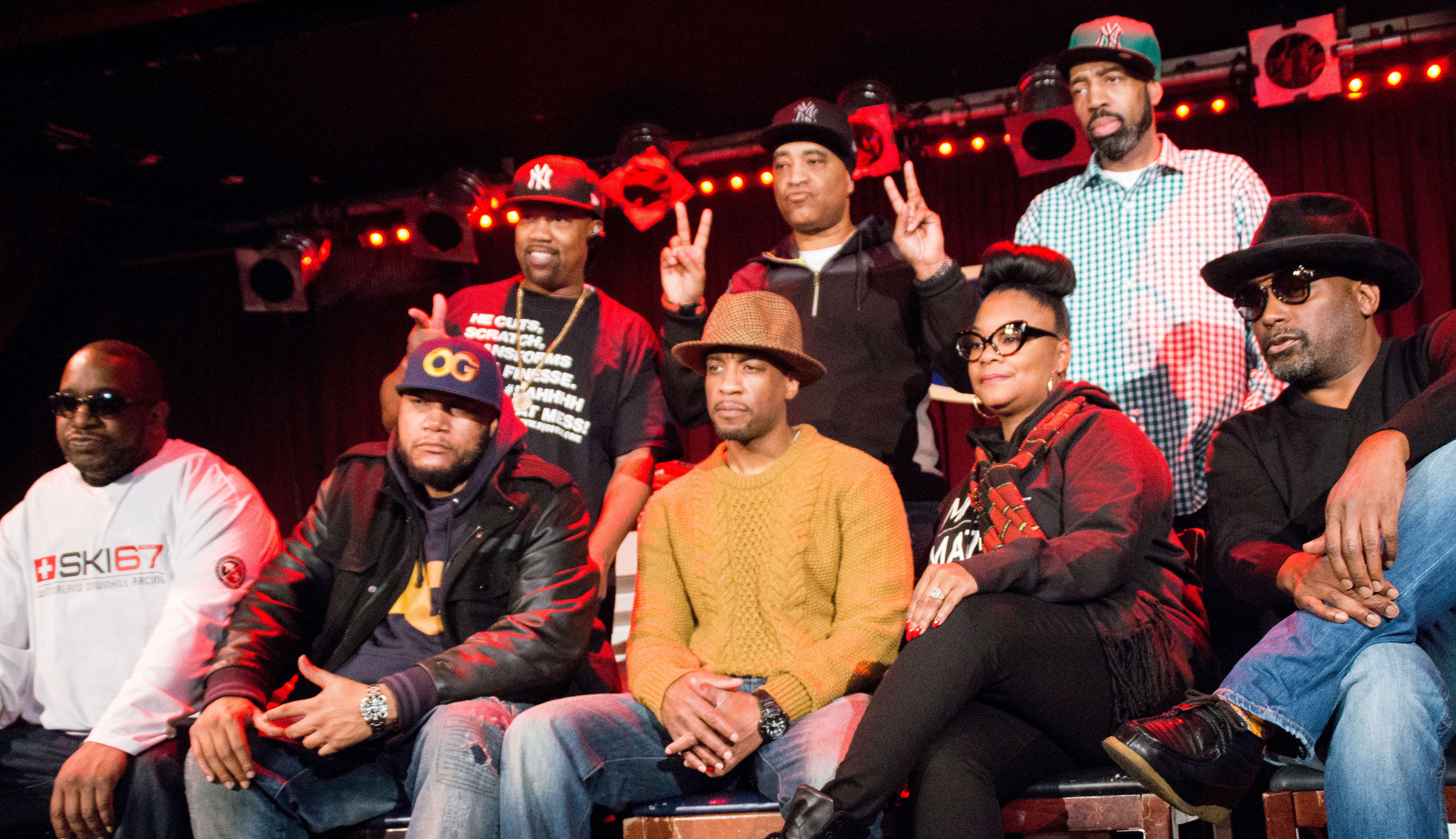 Top row left to right: DJ Cool V, Marley Marl, Granddaddy I.U. Below: Kool G Rap, Craig G, Masta Ace, Roxanne Shante, Big Daddy Kane